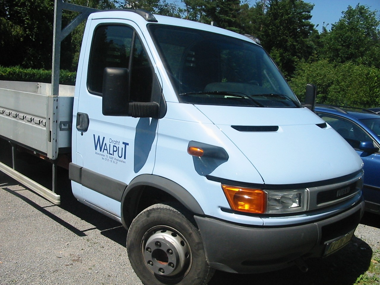 Iveco Daily